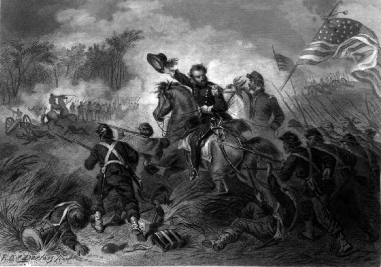 Gen. Lyon's charge at Wilson's Creek